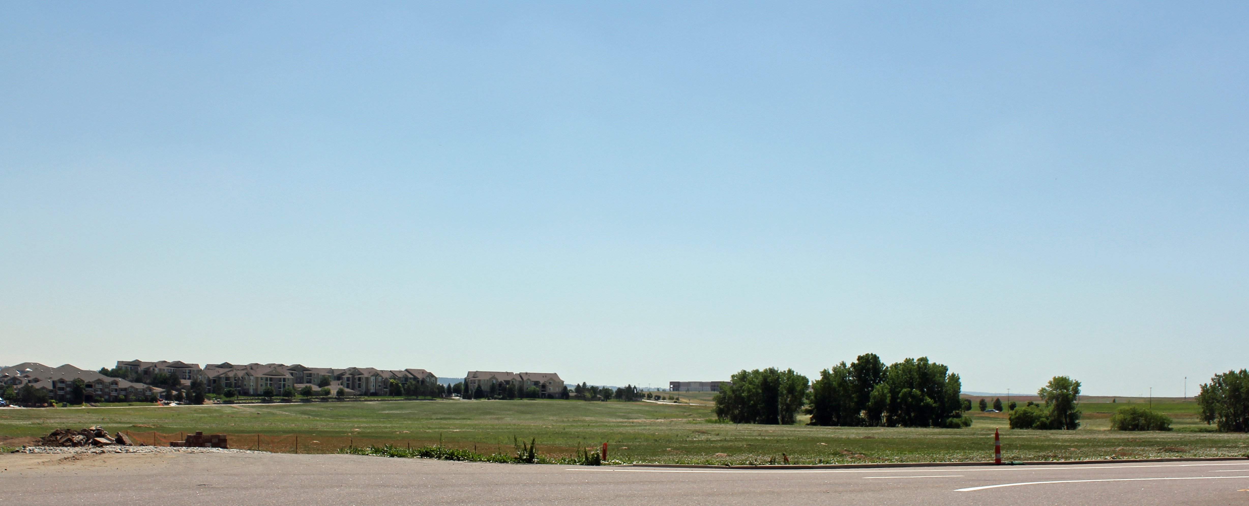 Dove Valley, Colorado, in Arapahoe County. Some of the valley is part of the City of Centennial.